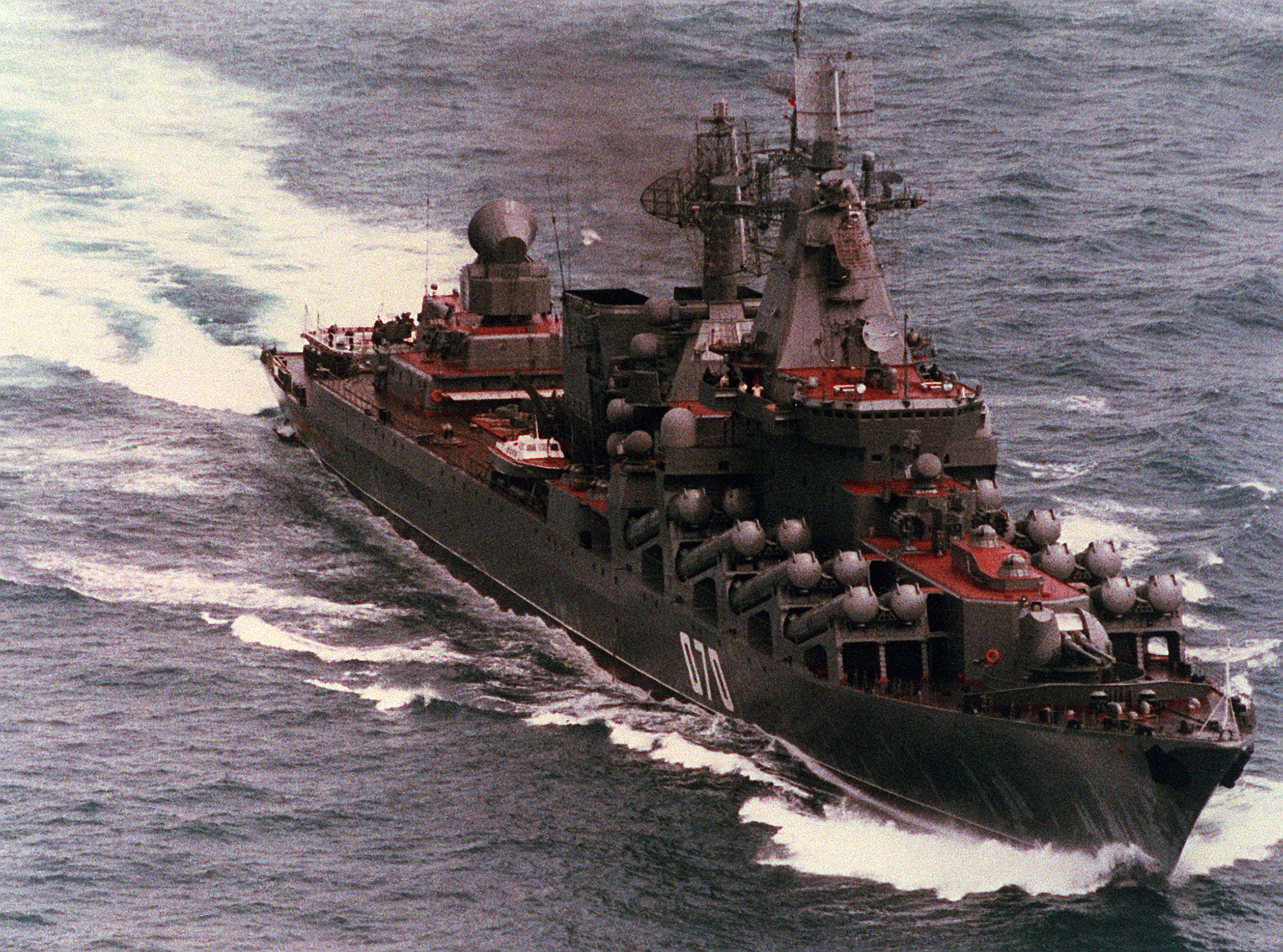 Released to Public ID: DN-SC-94-00156 Service Depicted: Other Service A starboard bow view of the Slava Class Russian guided missile cruiser MARSHAL USTINOV underway.